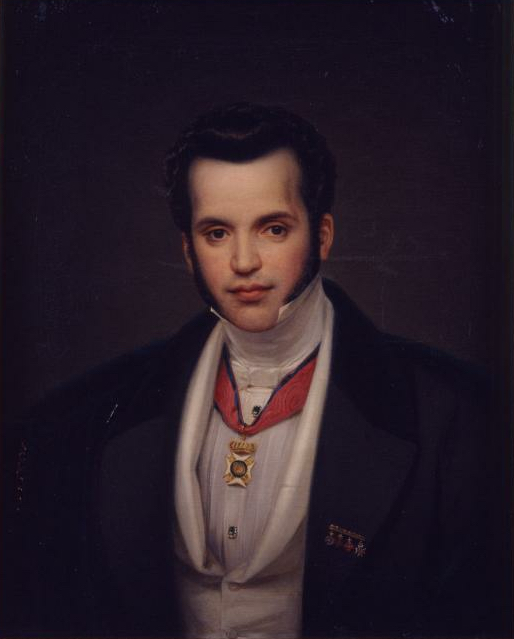 Portrait of Carl von Rothschild of Napoli (1851)